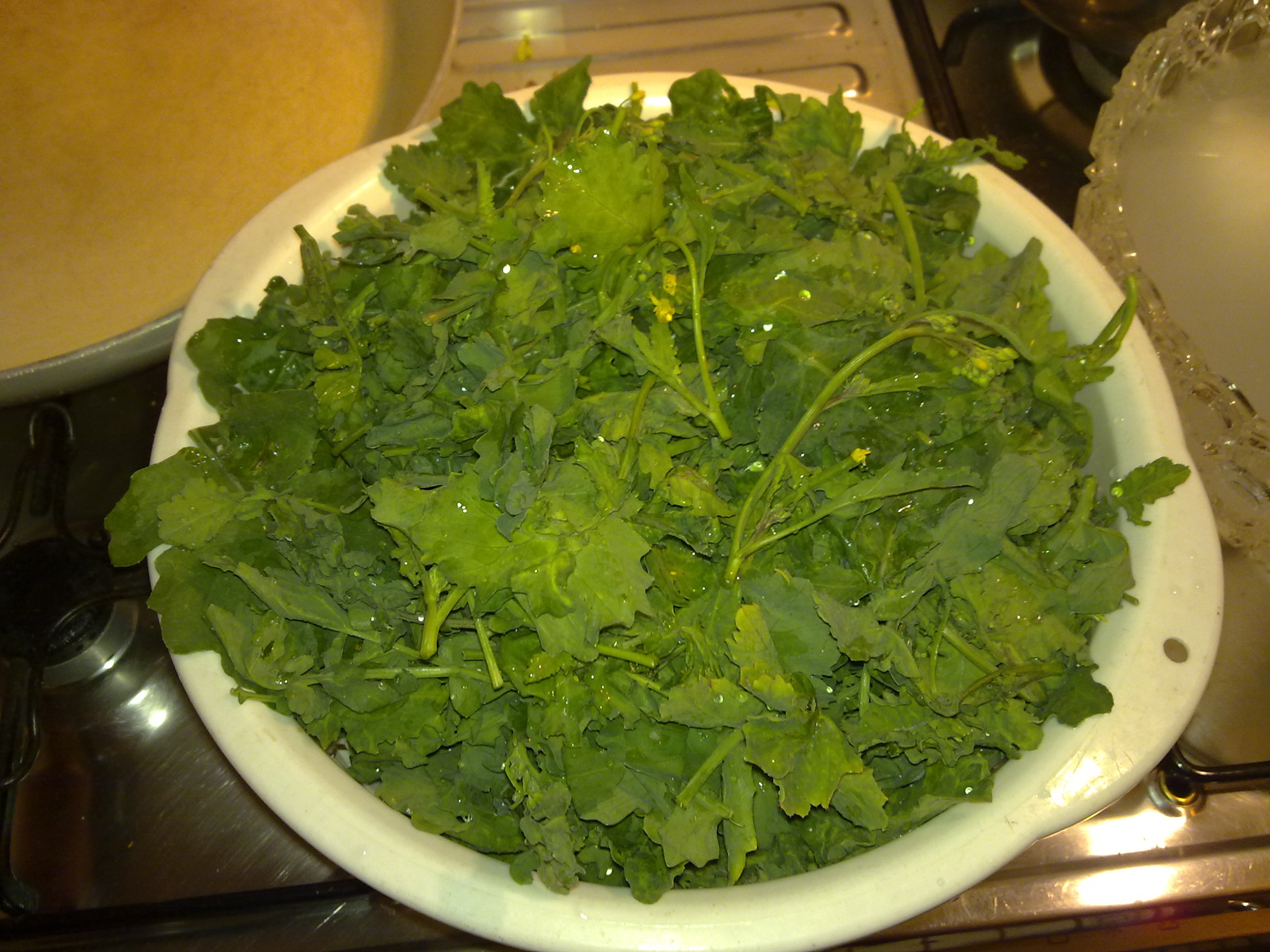 Cavolicello caught in winter on the slopes of Etna, washed and ready for cooking.